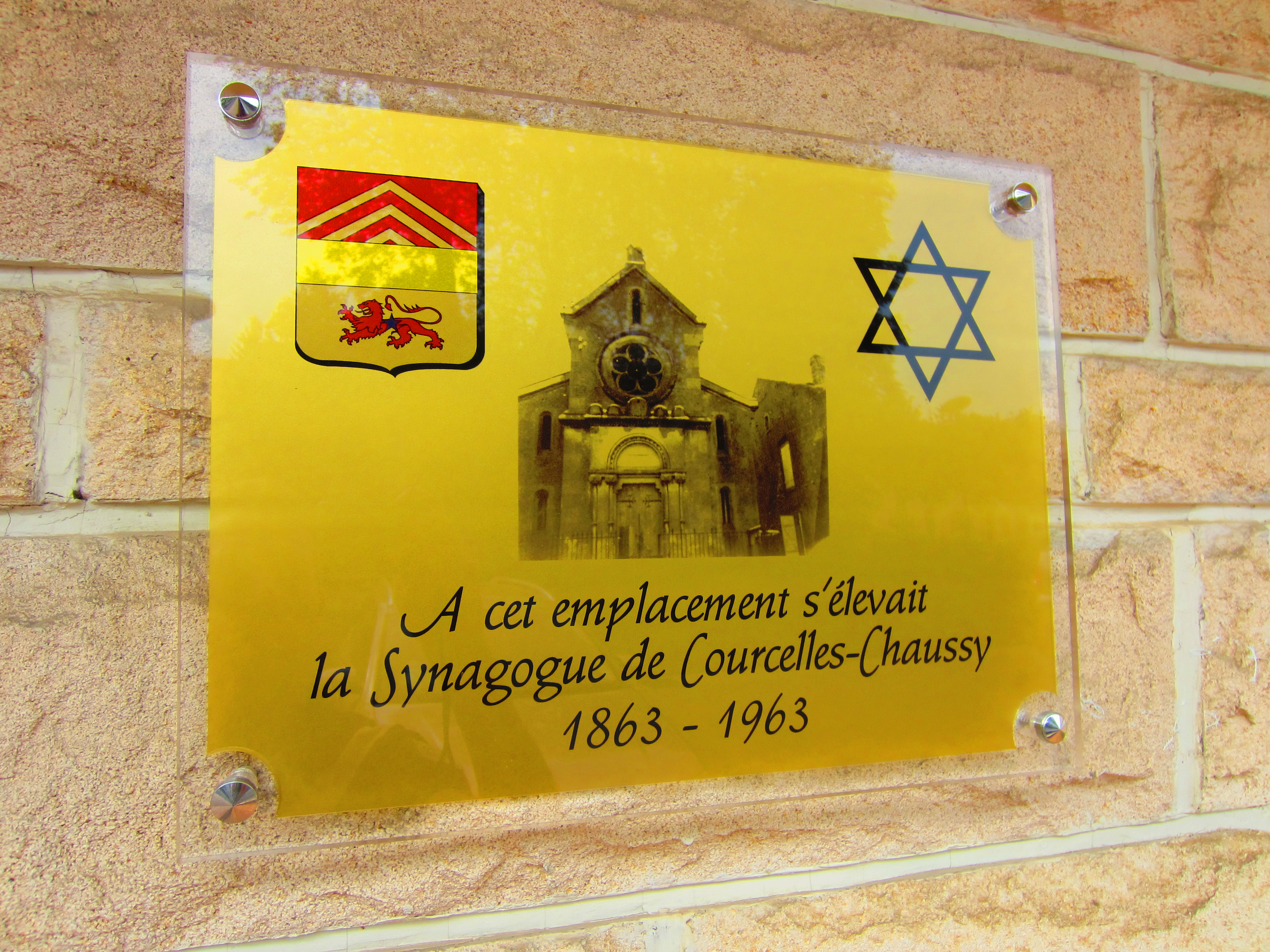 Stele synagogue Courcelles Chaussy